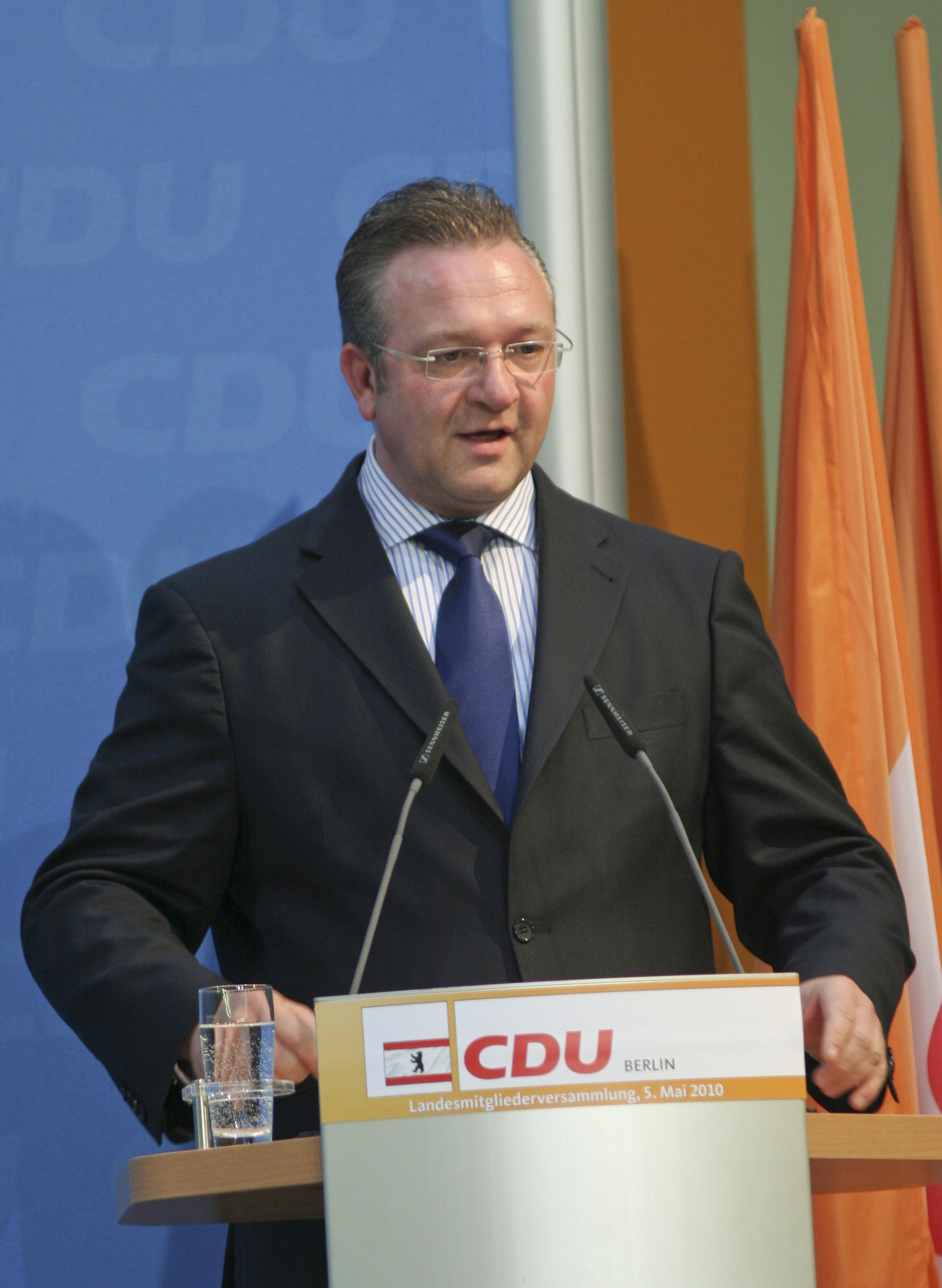 Frank Henkel at the general meeting of the CDU Berlin